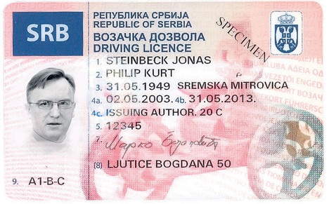 Serbian driver license specimen